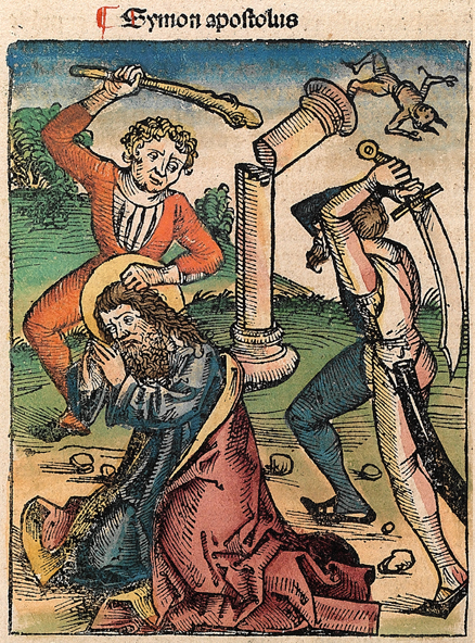 This is a part of a scan of an historical document: Title: Schedelsche Weltchronik or Nuremberg Chronicle